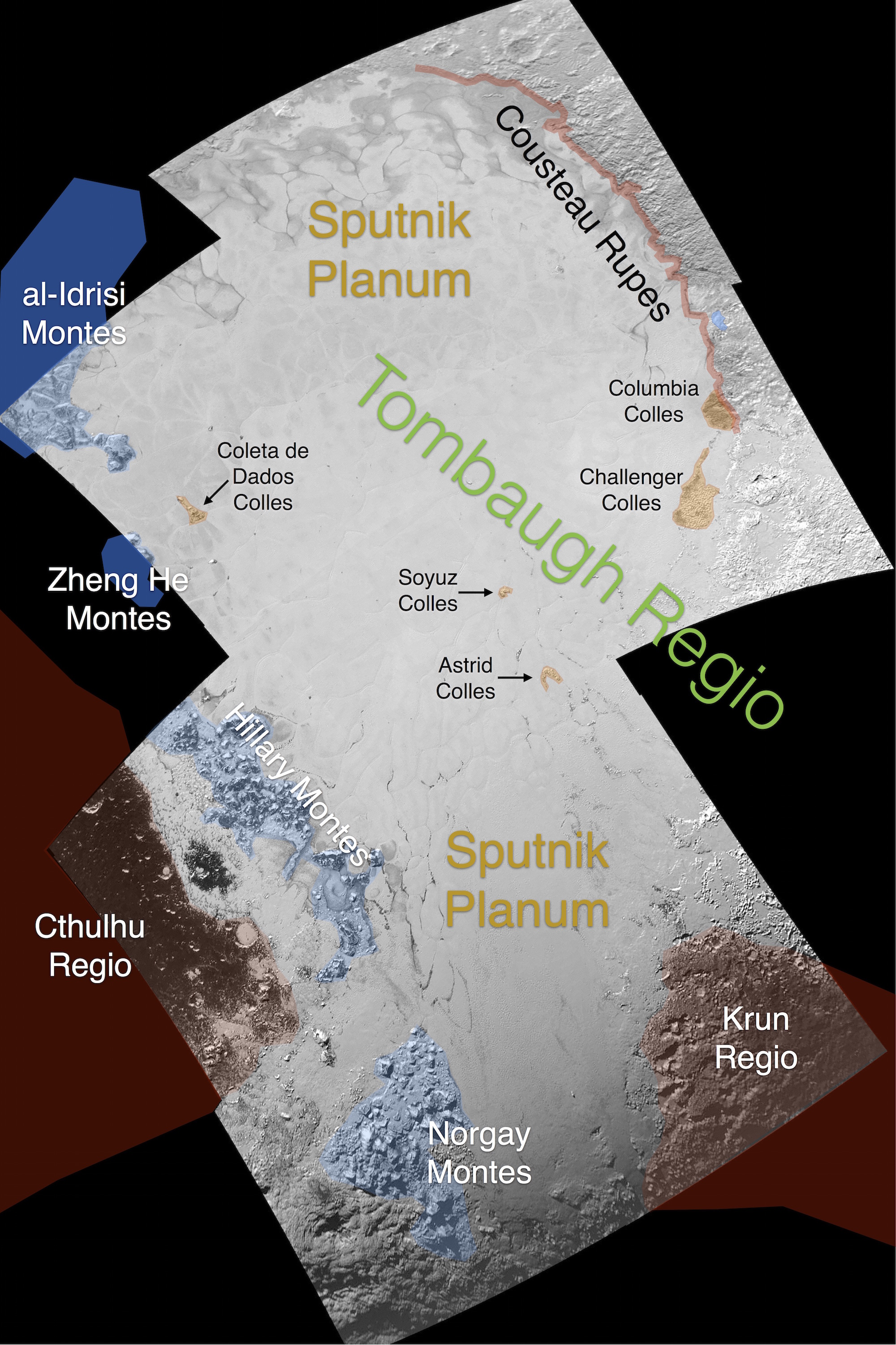 Original discription: This image contains the initial, informal names being used by the New Horizons team for the features on Pluto’s Sputnik Planum (plain). Names were selected based on the input the team received from the Our Pluto naming campaign. Names have not yet been approved by the International Astronomical Union (IAU).